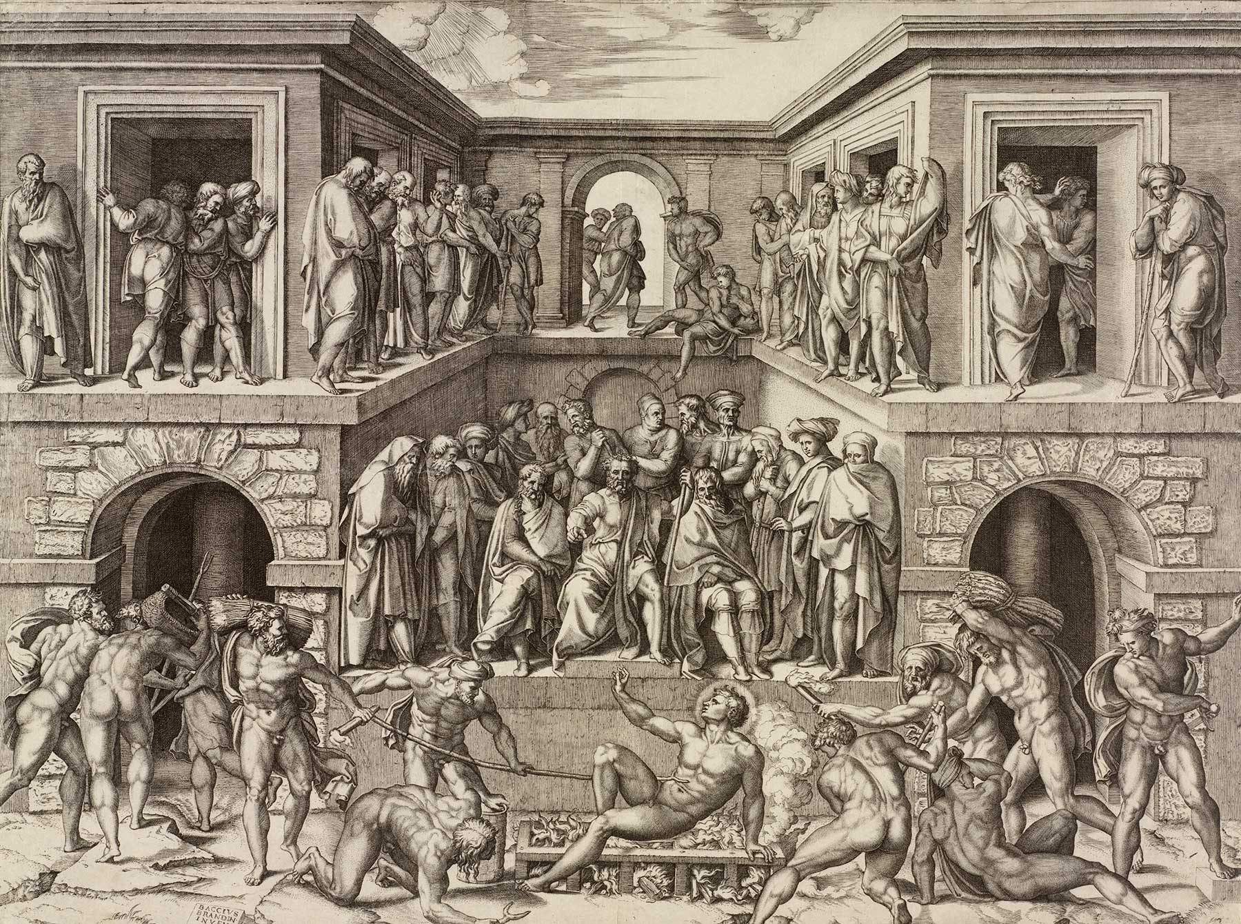 Martyrdom of St. Lawrence by Marcantonio Raimondi